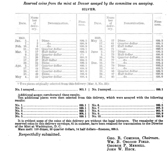 Scan from report of the 1921 US Assay Commission detailing the problems with the 1920-D quarter being struck in too rich silver.